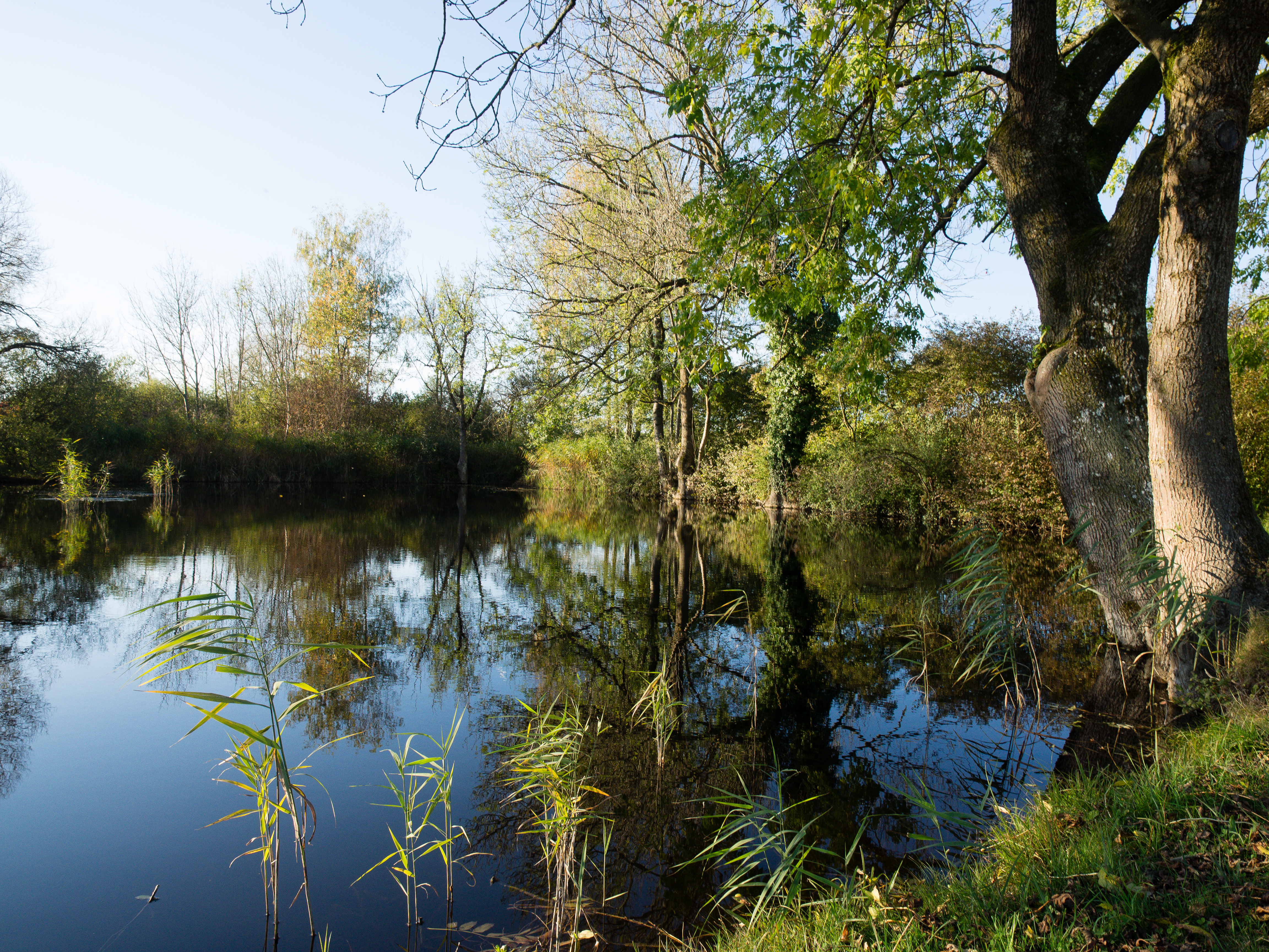 Pond near Hagenbuch ZH, Canton of Zurich, Switzerland